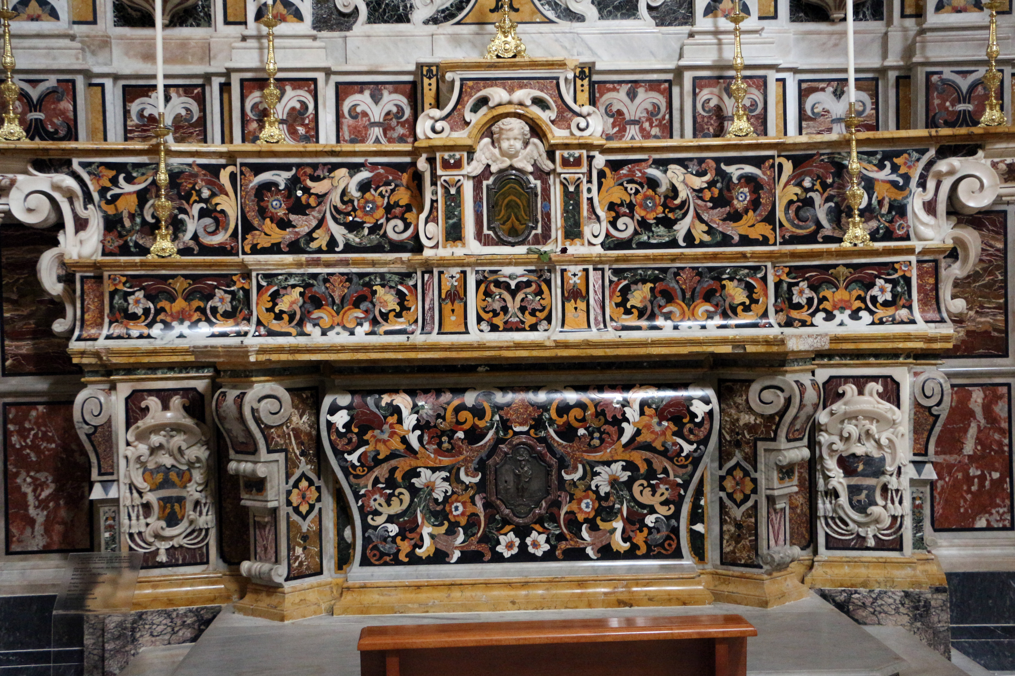 Cathedral (Matera)